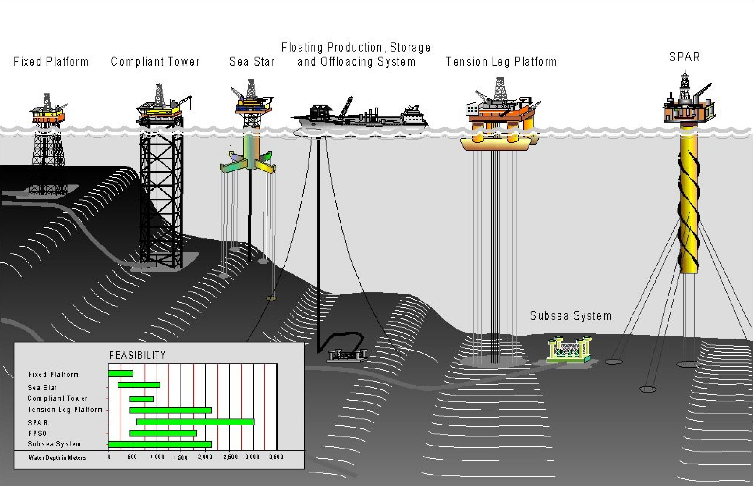 Drilling systems. Deepwater development systems in the Gulf of Mexico.